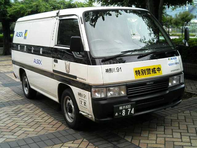 1995–2001 Isuzu Fargo armoured van of Sohgo Security Services, photographed in Japan.